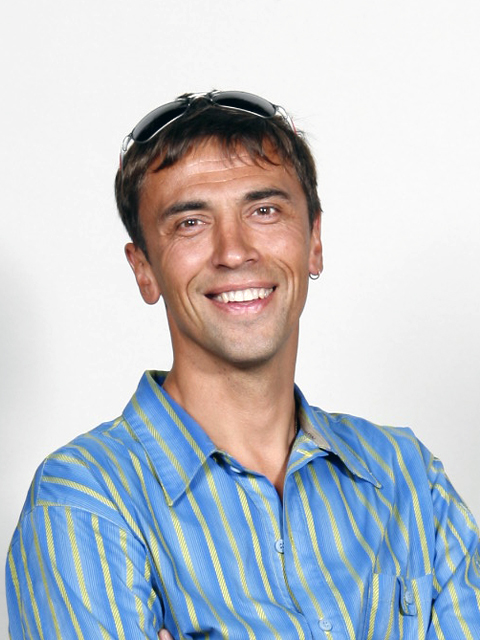 Rozov Valery, Russian skydiver, cropped version